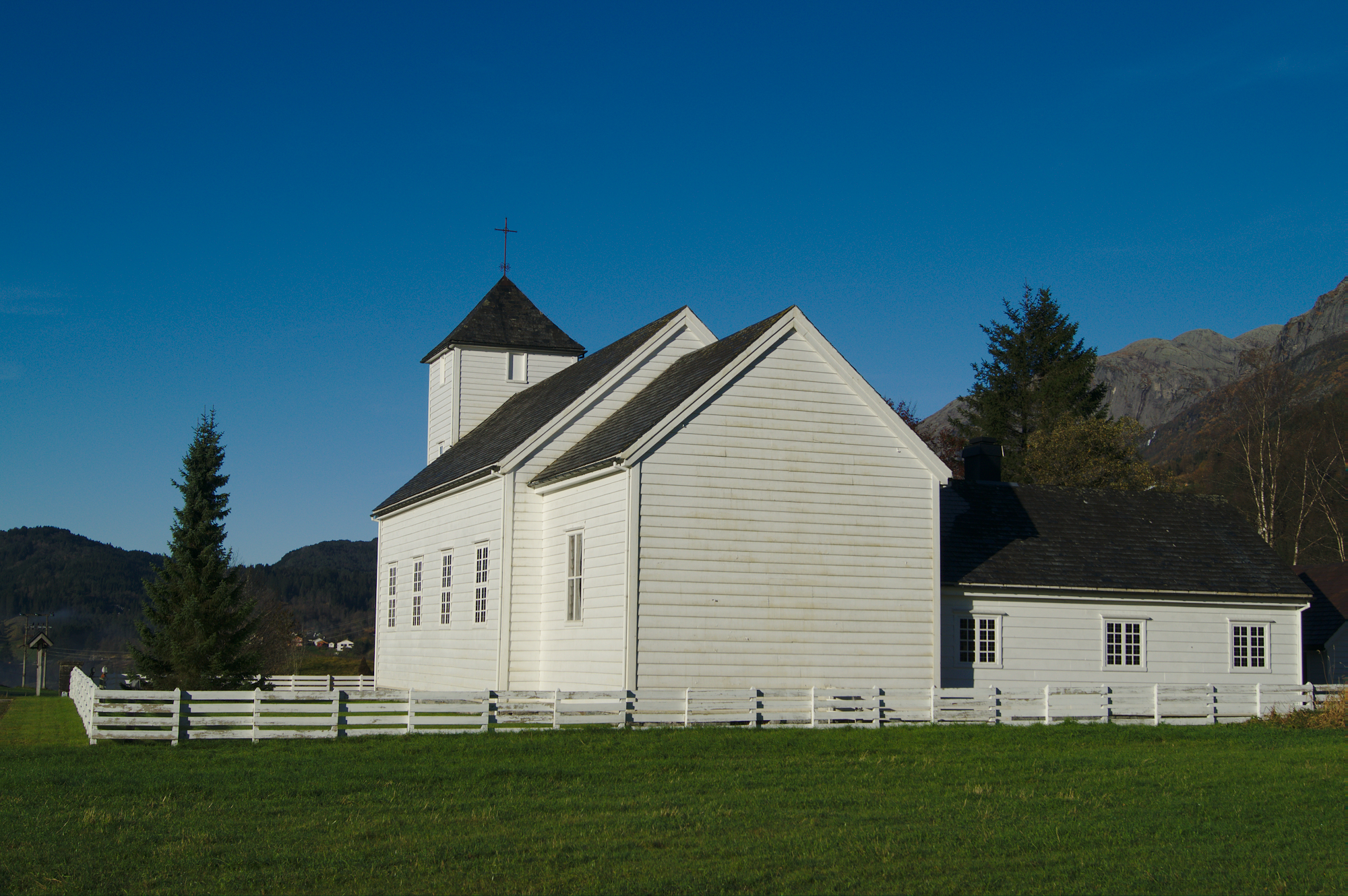 Bygstad Church, in the municipality of GaularNorsk nynorsk: Bygstad kyrkje